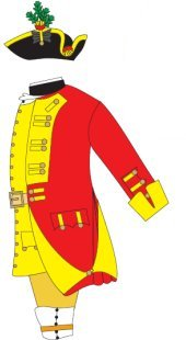 Hanoverian Cheusses Infantry Uniform Plate